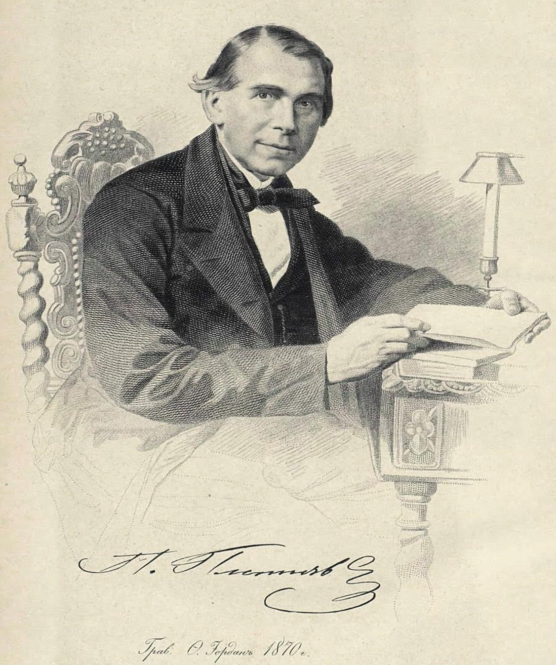 Petr Aleksandrovich Pletnev